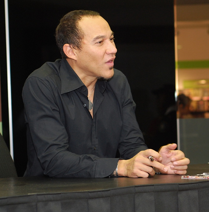 Jarvis Church (aka Gerald Eaton) signing autographs.